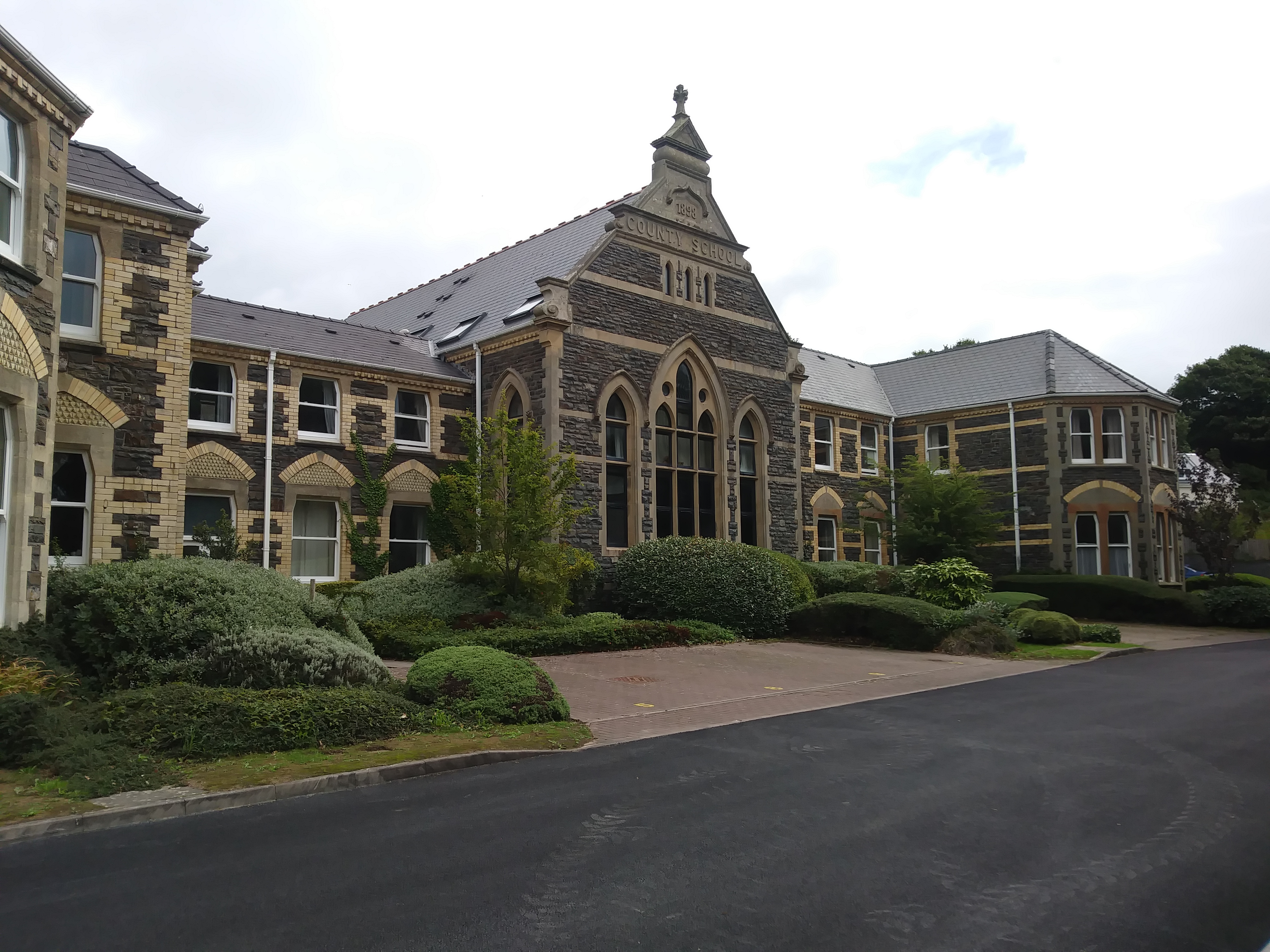 The old Ardwyn Grammar School building, Aberystwyth